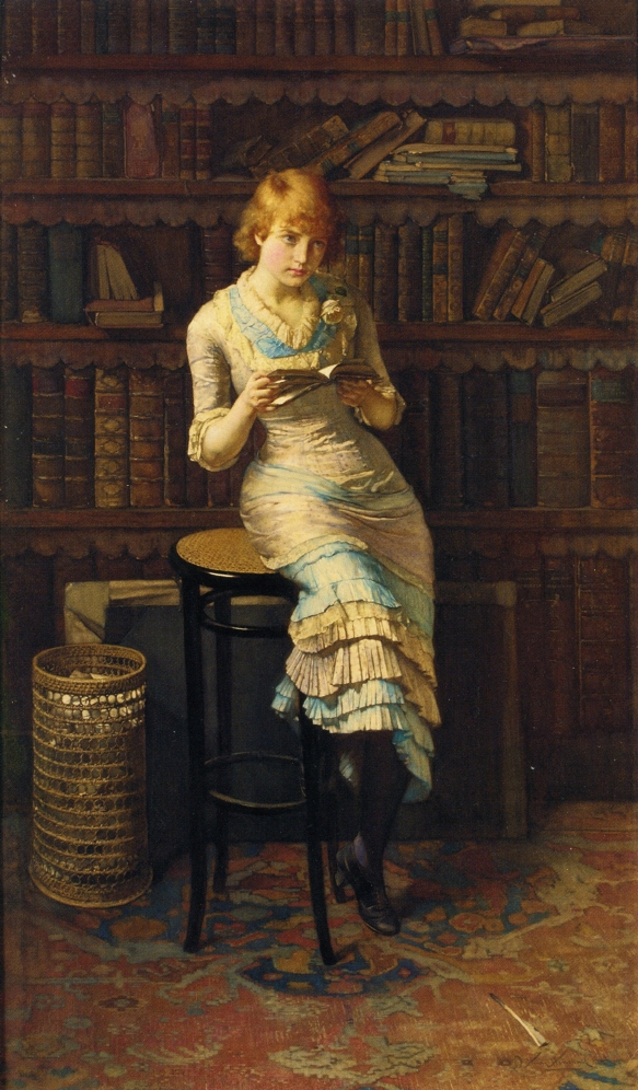 Artist age: Approximately 27 years old. Dimensions: Height: 135 cm (53.15 in.), Width: 78.8 cm (31.02 in.)